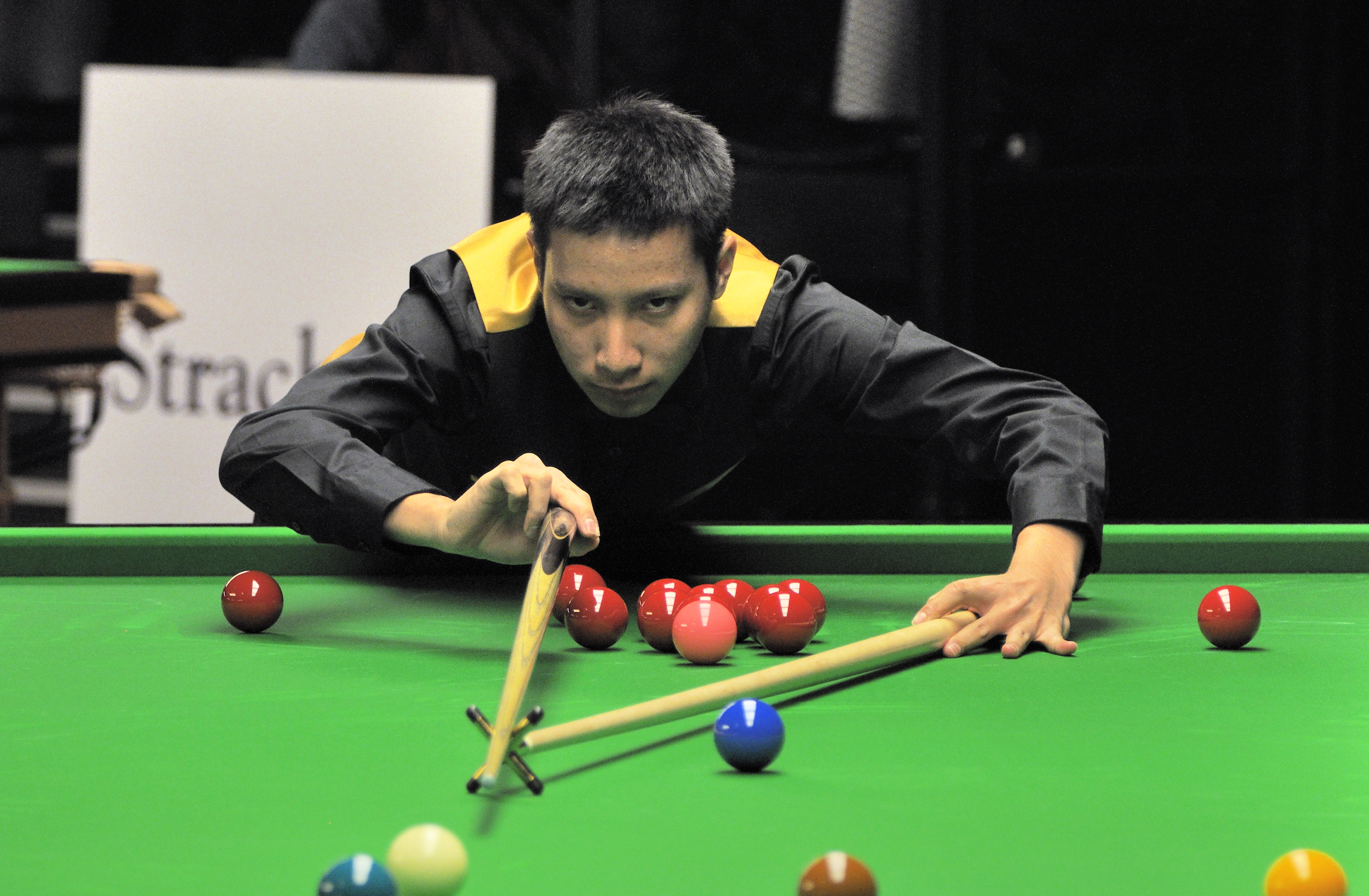 Picture taken in Berlin during the Snooker German Masters in 2014. Ratchayothin Yotharuck.